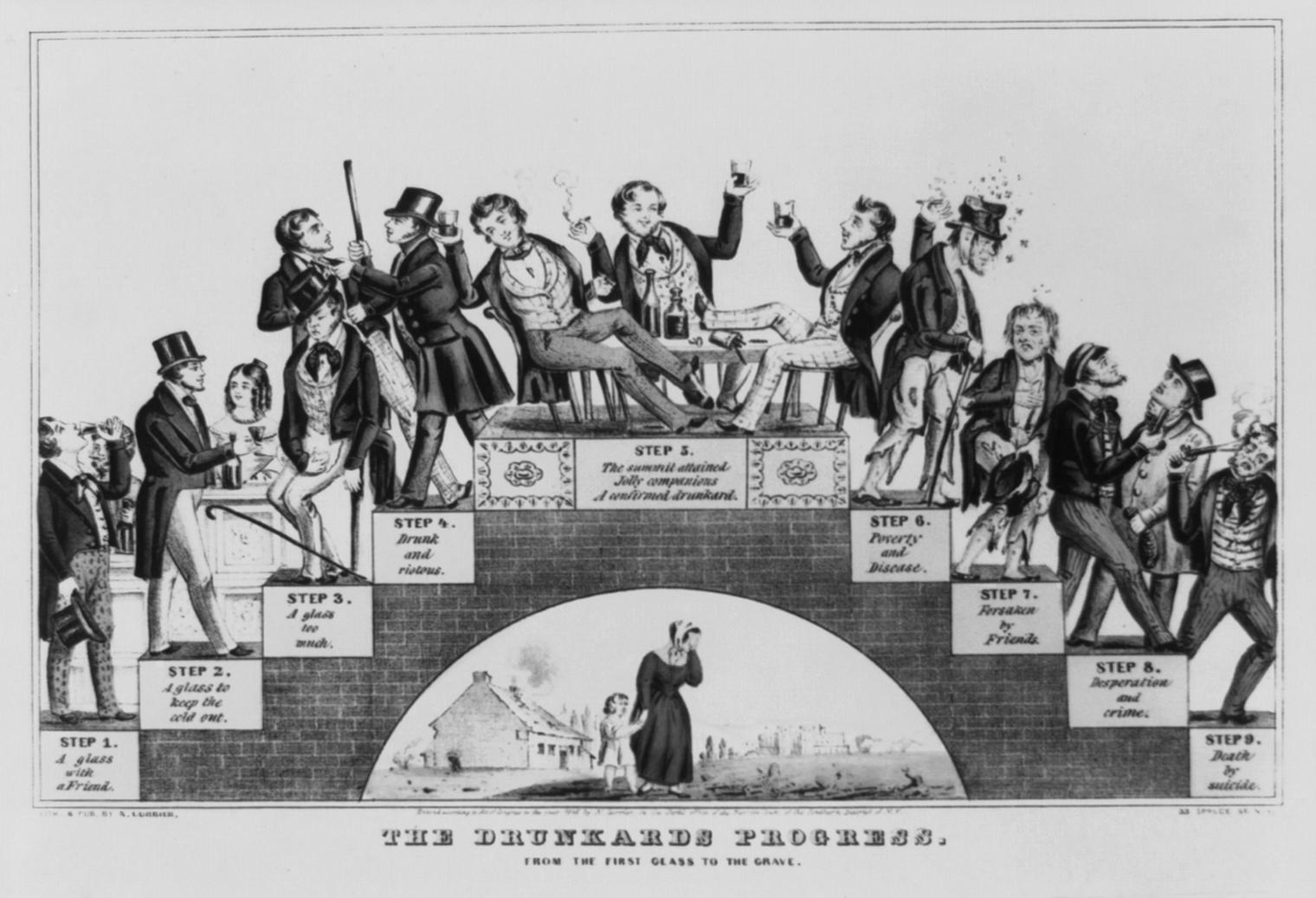 A lithograph by Nathaniel Currier supporting the temperance movement. Cleaned up slightly using the GIMP. Step 1: A glass with a friend. Step 2: A glass to keep the cold out. Step 3: A glass too much. Step 4: Drunk and riotous. Step 5: The summit attained. Jolly companions, a confirmed drunkard. Step 6: Poverty and Disease. Step 7: Forsaken by Friends. Step 8: Desperation and crime. Step 9: Death by suicide.